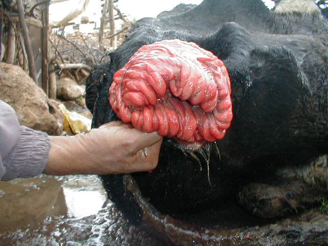 Vaginal prolapse, cow